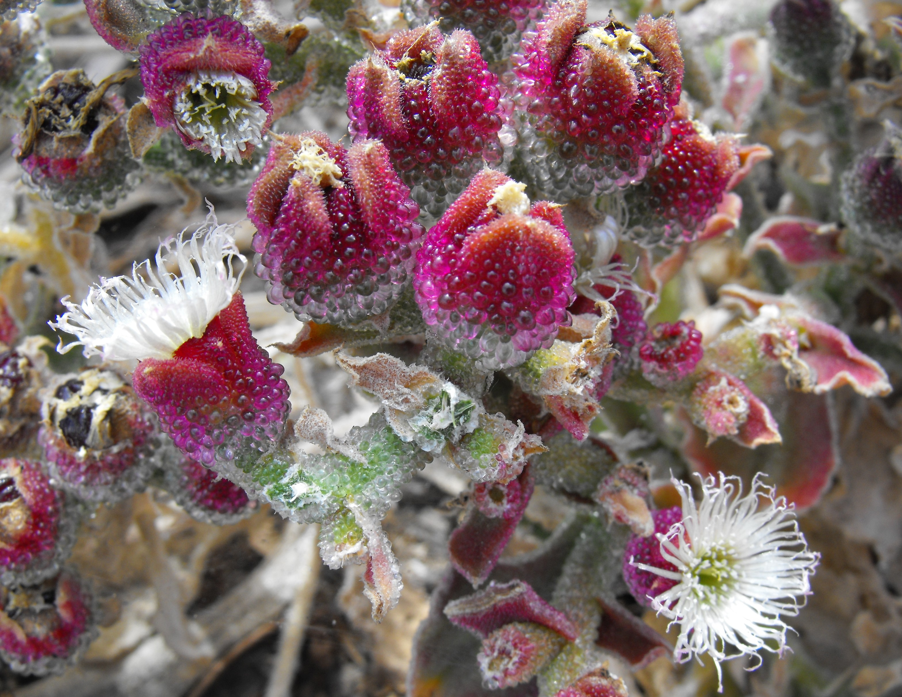 Mesembryanthemum crystallinum on the Bayside Trail at Point Loma, San Diego, California, USA.